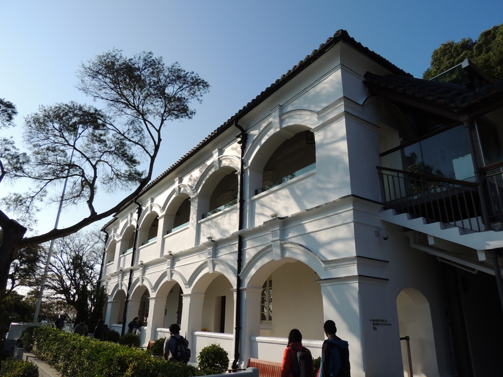 Old Tai O Police Station (舊大澳警署)